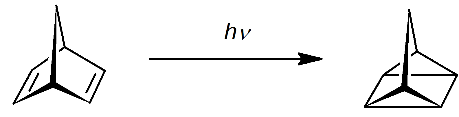 Synthesis of quadricyclane from norbornadiene. Smith, Claiborune D. (1988). "Quadricyclane". Org. Synth.; Coll. Vol. 6: 962.